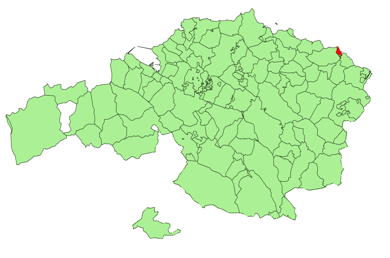 Lekeitio municipality in the province of Biscay